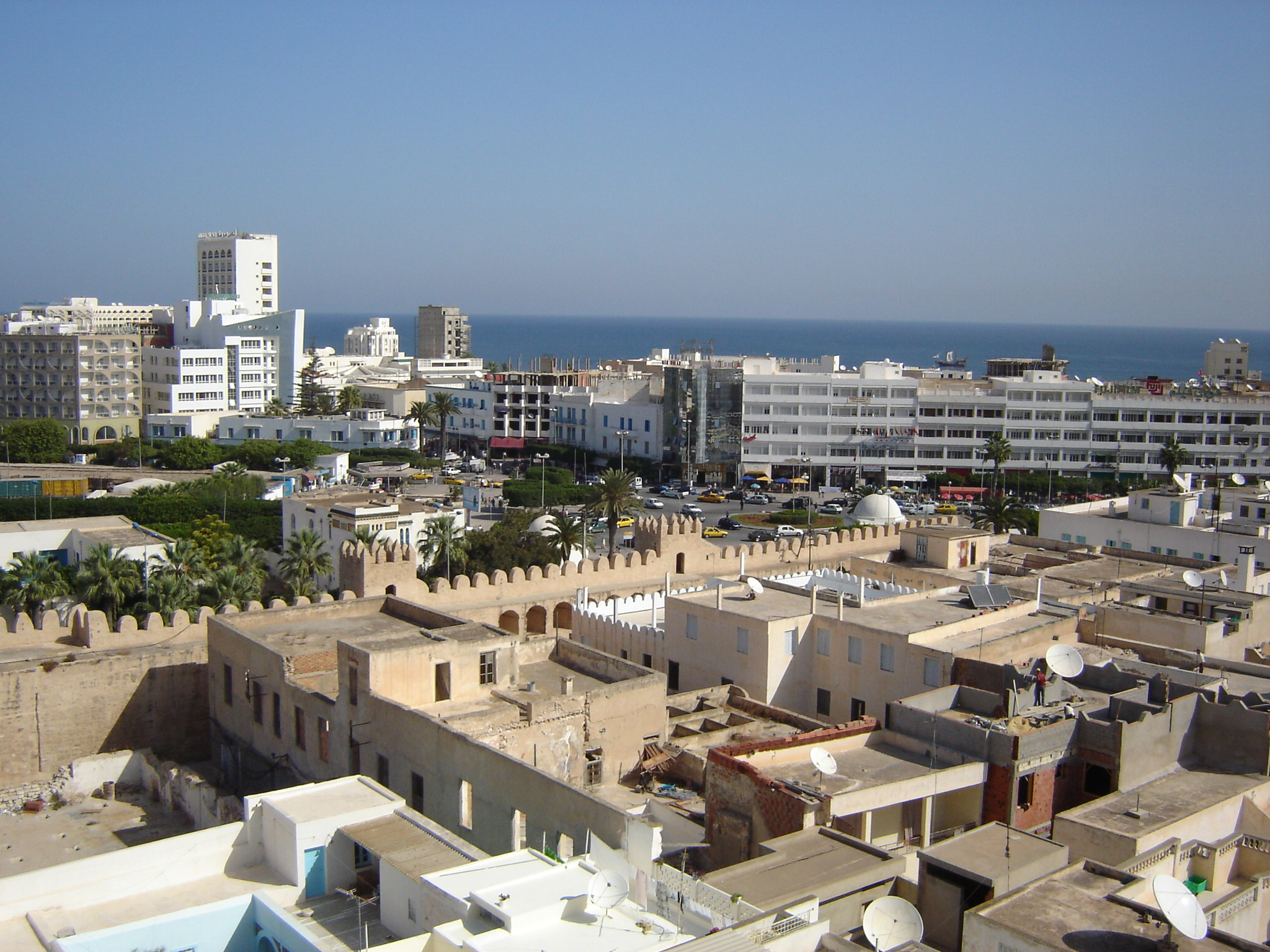 View from the tower of the Ribat of Sousse, Tunisia Source: Self-made (October 2004) Author: BishkekRocks 13:16, 26 December 2005 (UTC)